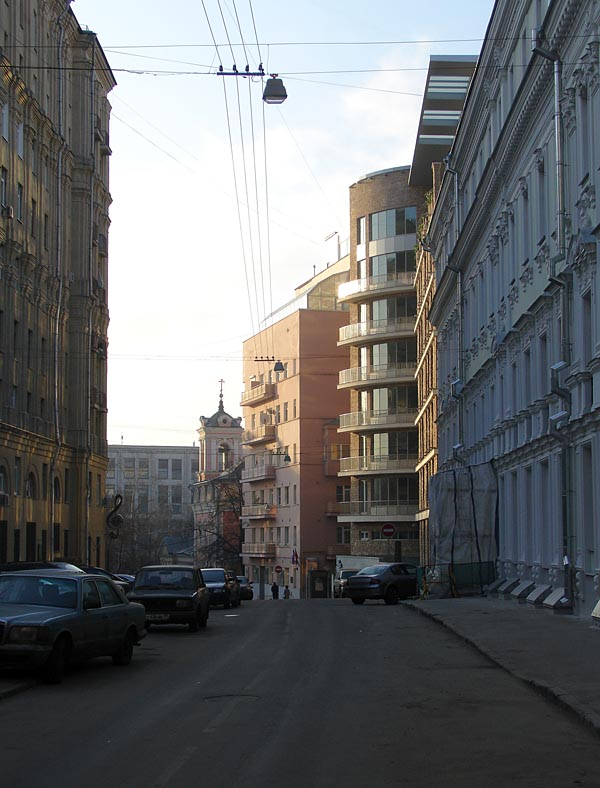 Bryusov Lane, Moscow, north from Tverskaya Street